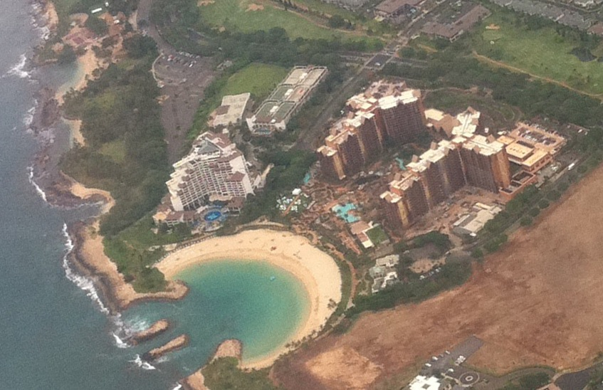 Aulani Resort, August 2011